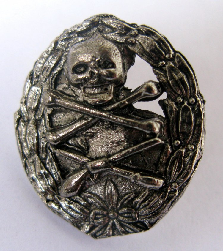 The Black Hand cockade.